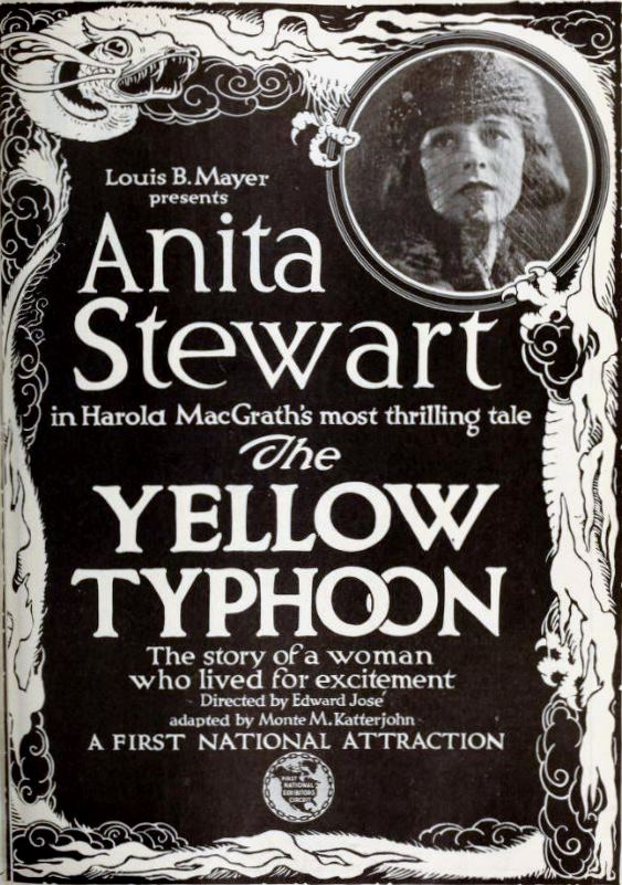 Advertisement for the American drama film The Yellow Typhoon (1920) with Anita Stewart, on page 15 of the May 1, 1920 Exhibitors Herald.